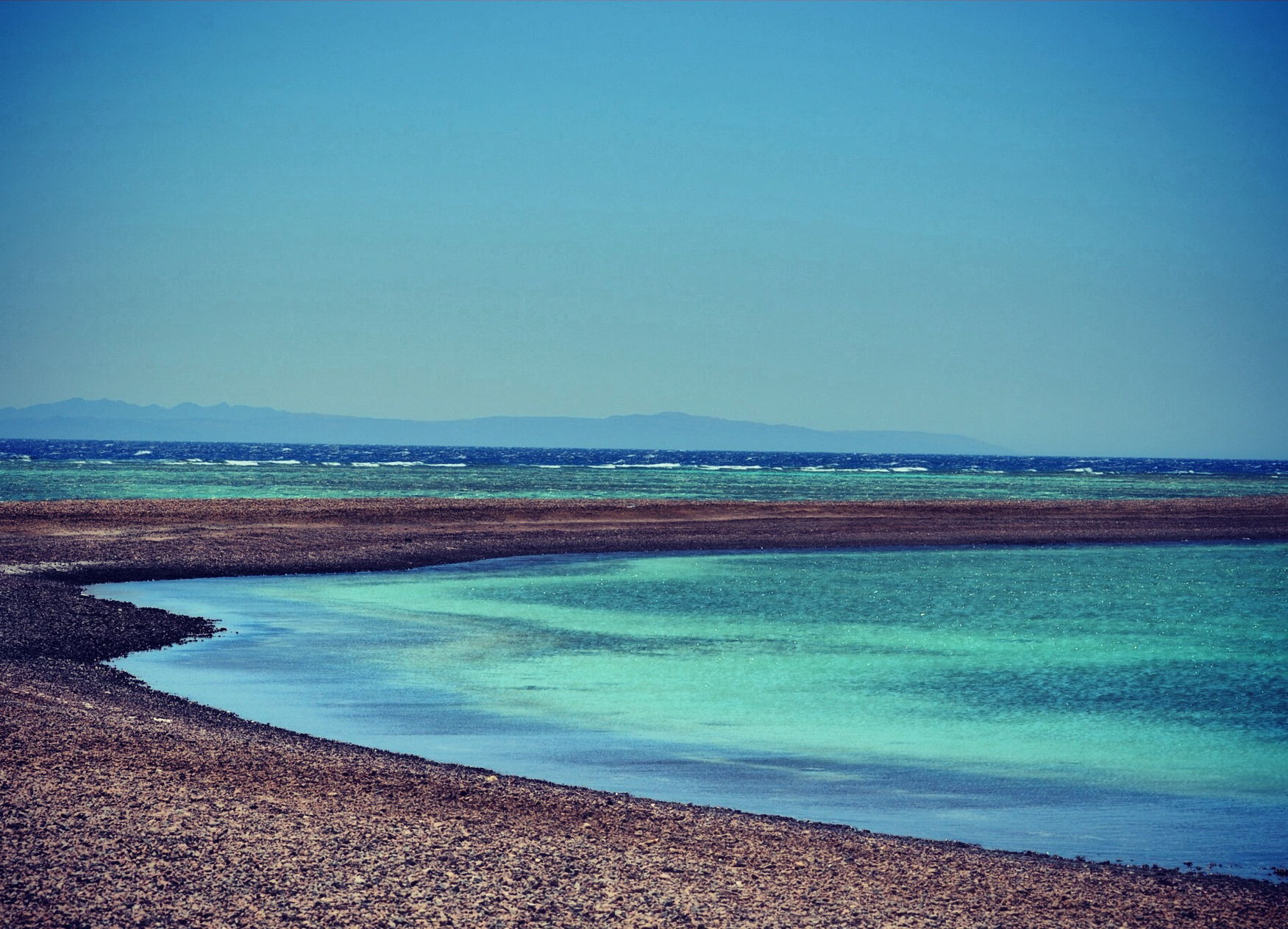 Blue Lagoon, Dahab, Egypt